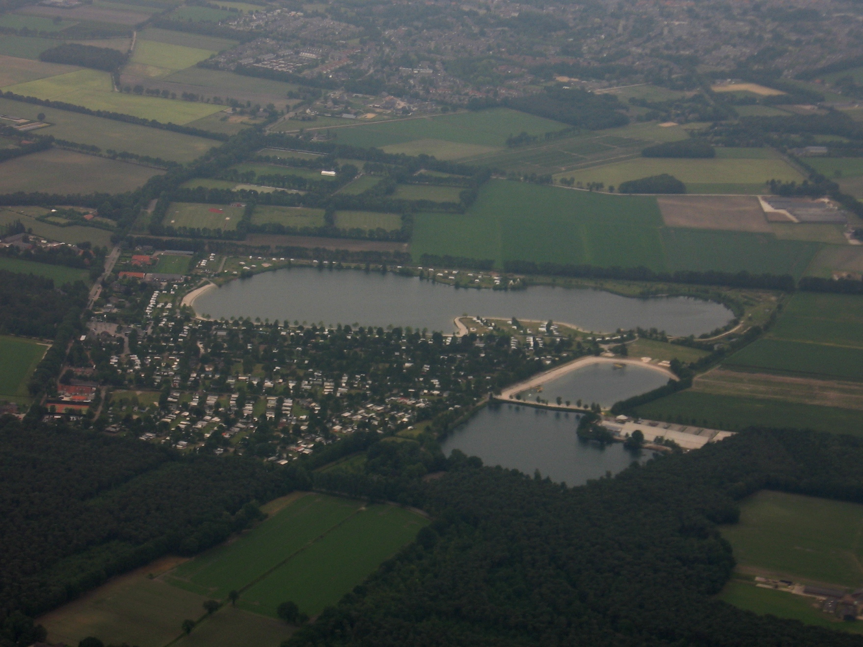 Diepreitsche Waterloop - recreatiepark Ter Spegelt, Eersel